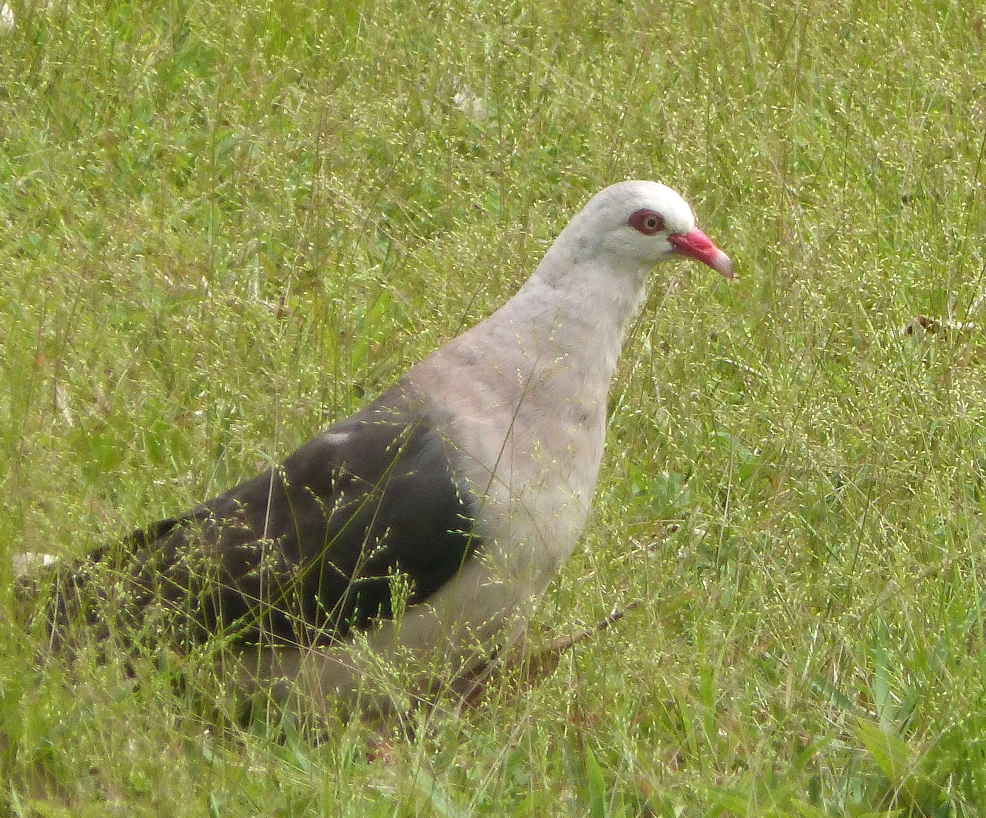 The pink pigeon is a species of Columbidae endemic to Mauritius, and is now very rare. It is the only Mascarene pigeon that has not gone extinct yet, thanks to breeding program in open aviaries in Black River Gorge National Park Mauritius